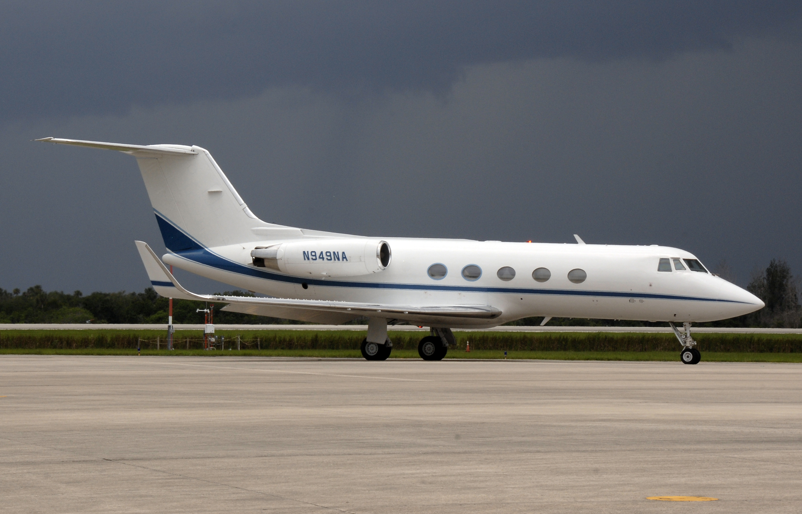 NASA's Shuttle Training Aircraft lands at the Shuttle Landing Facility at NASA's Kennedy Space Center in Florida with STS-127 crew members aboard. The crew is returning to Kennedy to prepare for space shuttle Endeavour's July 11 launch on the 29th assembly flight to the International Space Station. This will be the third launch attempt due to the leak of hydrogen gas at the Ground Umbilical Carrier Plate during tanking on two previous attempts, June 13 and June 17. The STS-127 mission is the final of three flights dedicated to the assembly of the Japan Aerospace Exploration Agency's Kibo laboratory complex. Endeavour will deliver the Japanese Experiment Module's Exposed Facility, or JEM-EF, and the Experiment Logistics Module-Exposed Section, or ELM-ES. FAA registry